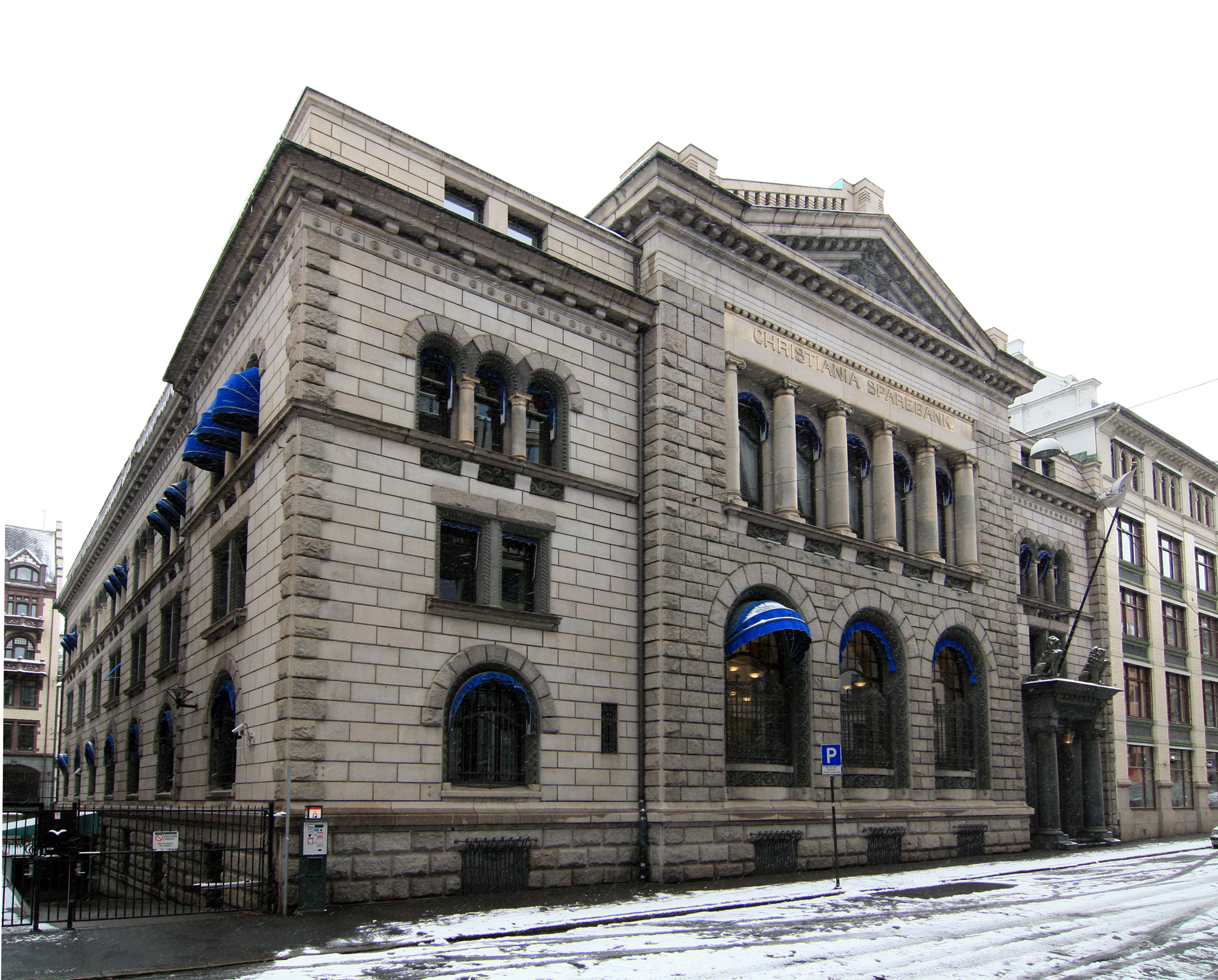 Christiania Sparebank, Øvre Slottsgate 3, Oslo. Built 1901. Architect: Henrik Nissen.